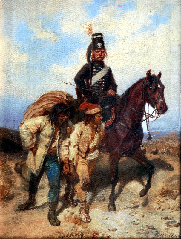 The horseman wears a uniform from the Prussian Hussar's regiment "von Ruesch"